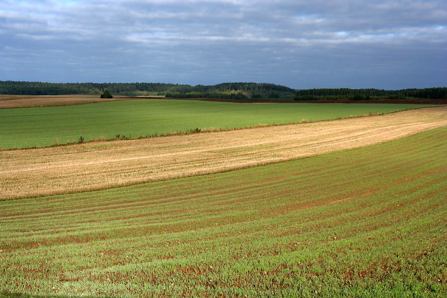 A typical landscape of the Podlasie region of Poland. Near the village of Bohoniki